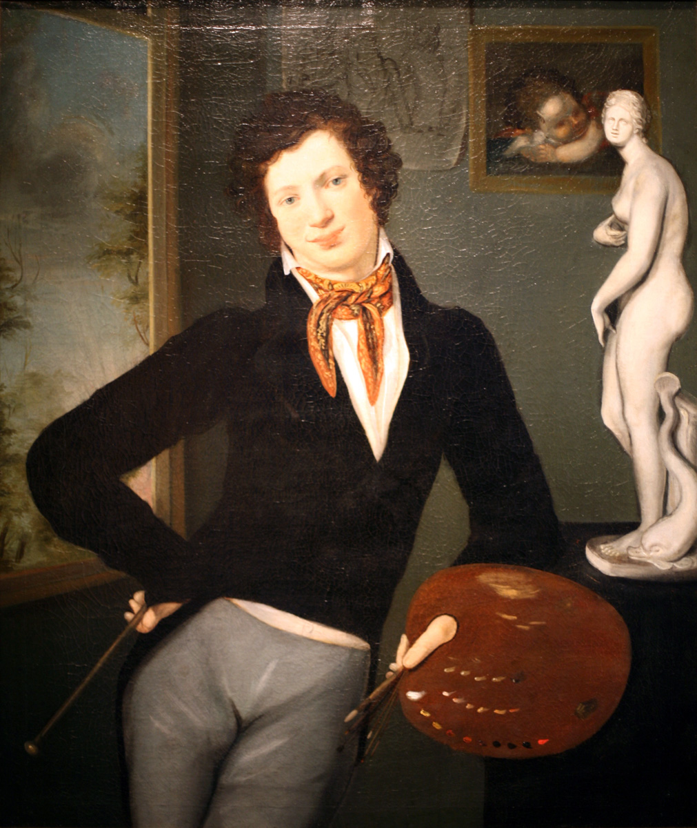 Moritz Daniel Oppenheim, German, 1800-1882 Self-Portrait, 1814-1816 Oil on canvas 38 11/16 x 32 7/8 in. (98.3 x 83.5 cm) The Jewish Museum, New York Purchase: Anonymous gift in memory of Curtis Hereld; Esther Leah Ritz Bequest; Fine Arts Acquisitions Committee Fund; Gift of Mr. and Mrs. George Jaffin, by exchange; and Abraham Aaroni and Ruth Taub Bequests, 2008-137 Wikipedia Loves Art at the Jewish Museum (New York City) This photo of item # 2008-137 at the Jewish Museum (New York City) was contributed under the team name "shooting_brooklyn" as part of the Wikipedia Loves Art project in February 2009. Jewish Museum (New York City) The original photograph on Flickr was taken by shooting brooklyn—please add a comment to the original Flickr page whenever a use has been made on Wikipedia or another project. Project galleries on Flickr: this institution, this team